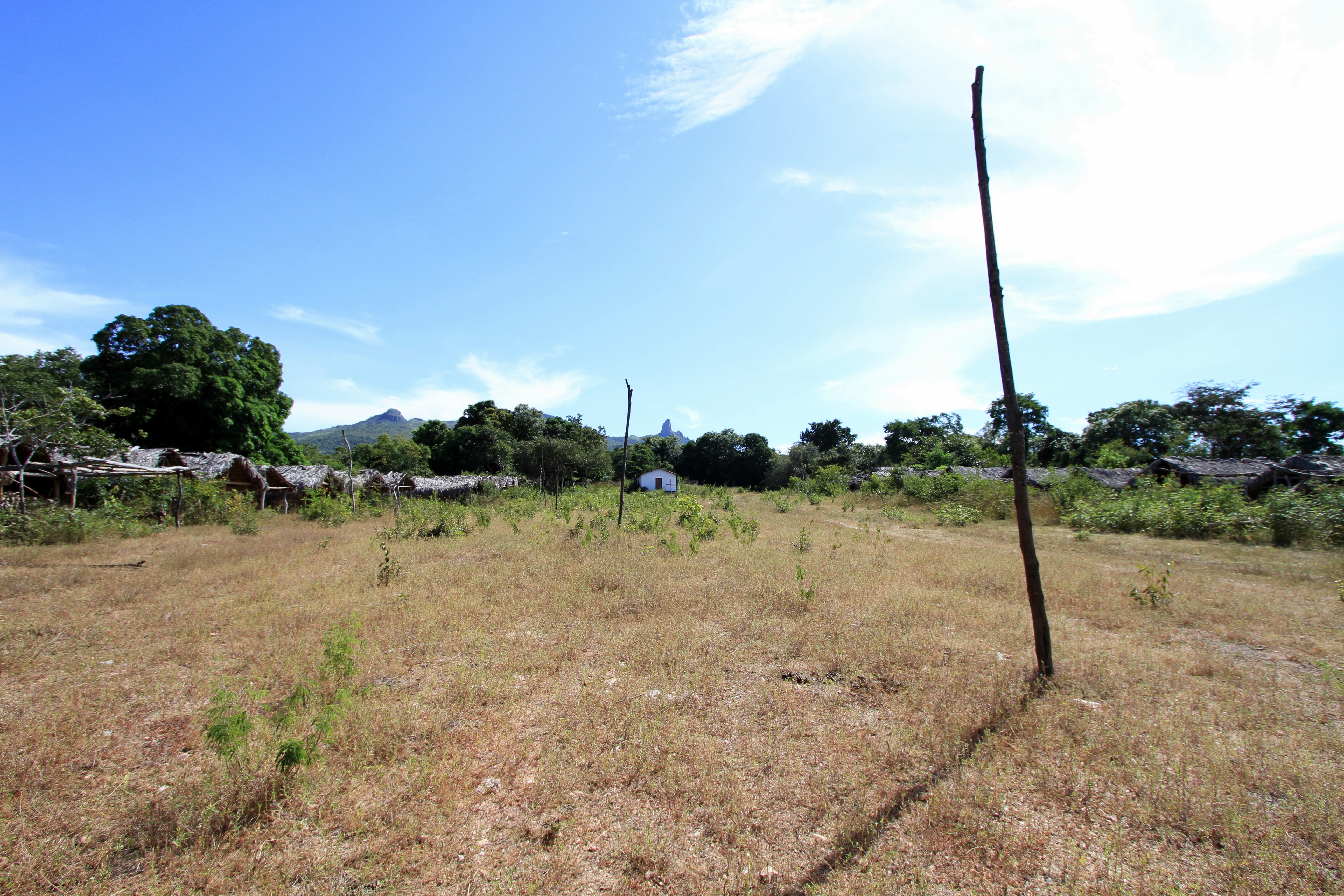 vao do moleque chapel - cavalcante - goias - brazil